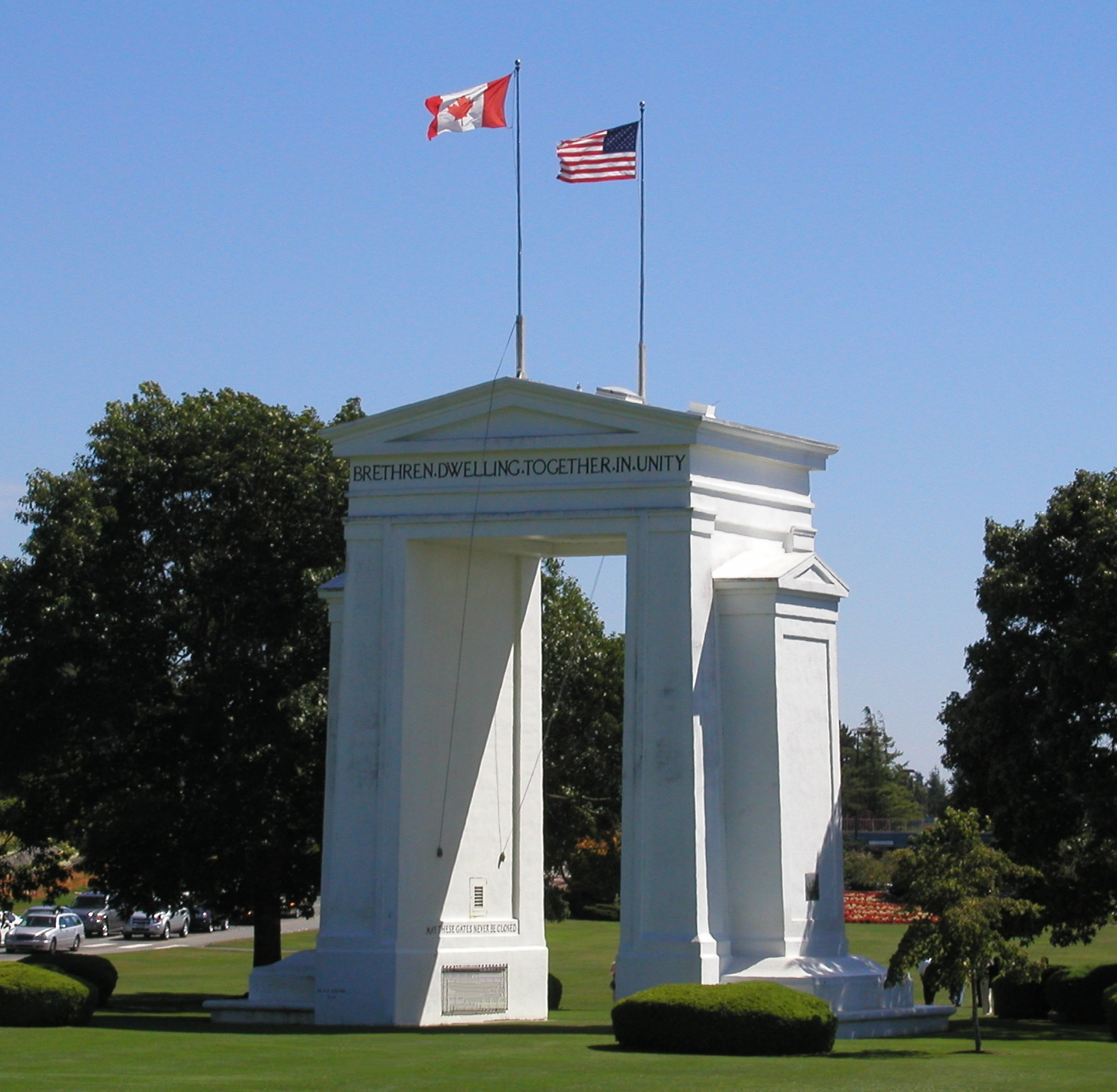 The Peace Arch on the U.S.-Canada Border between Washington state and British Columbia in 2007.